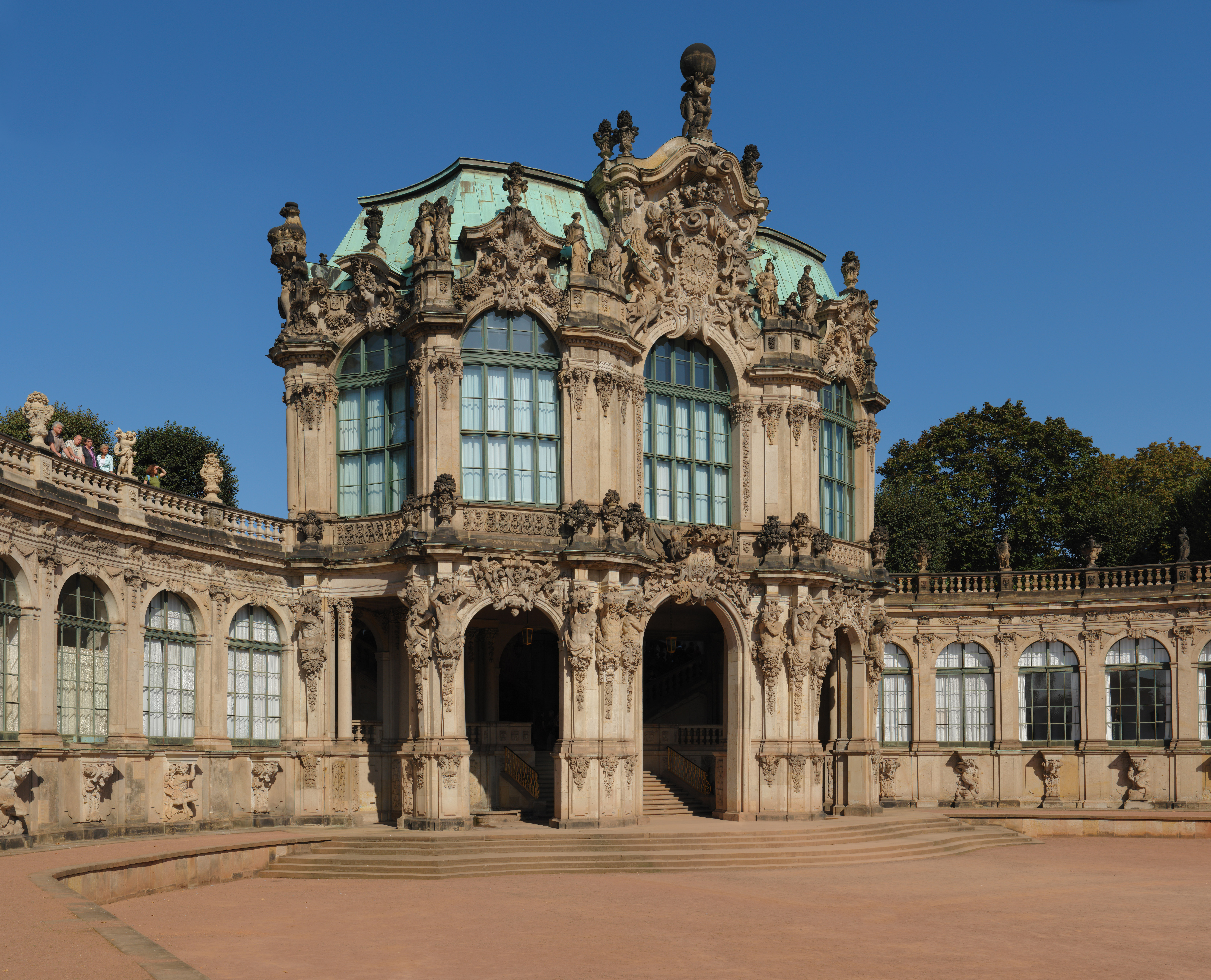 Wallpavilion in Zwinger Dresden, Germany